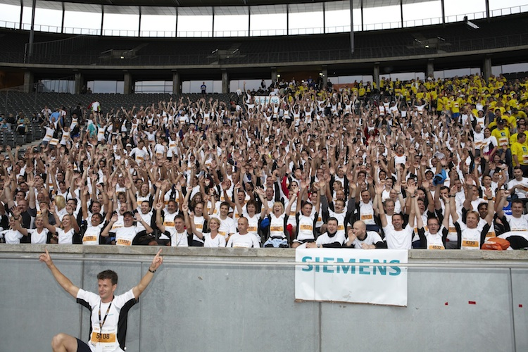 Group picture Siemens